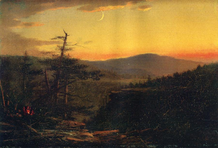 “Catskill Mountains at Sunset,” oil painting on board